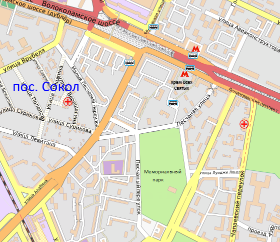 Sokol metro map